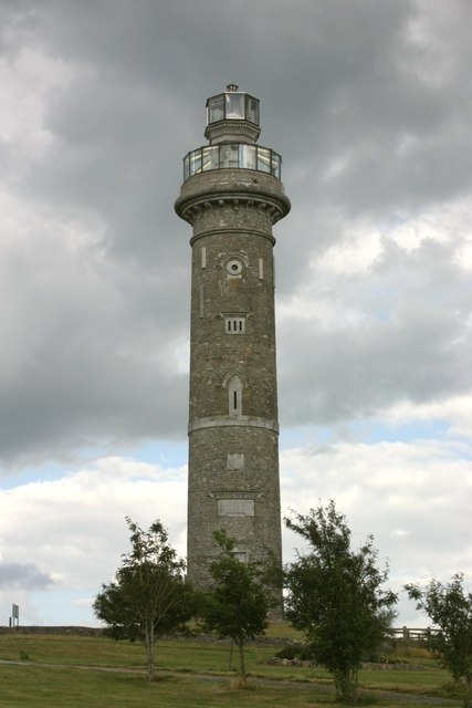 Spire of Loyd Folly built like a lighthouse a long way inland.